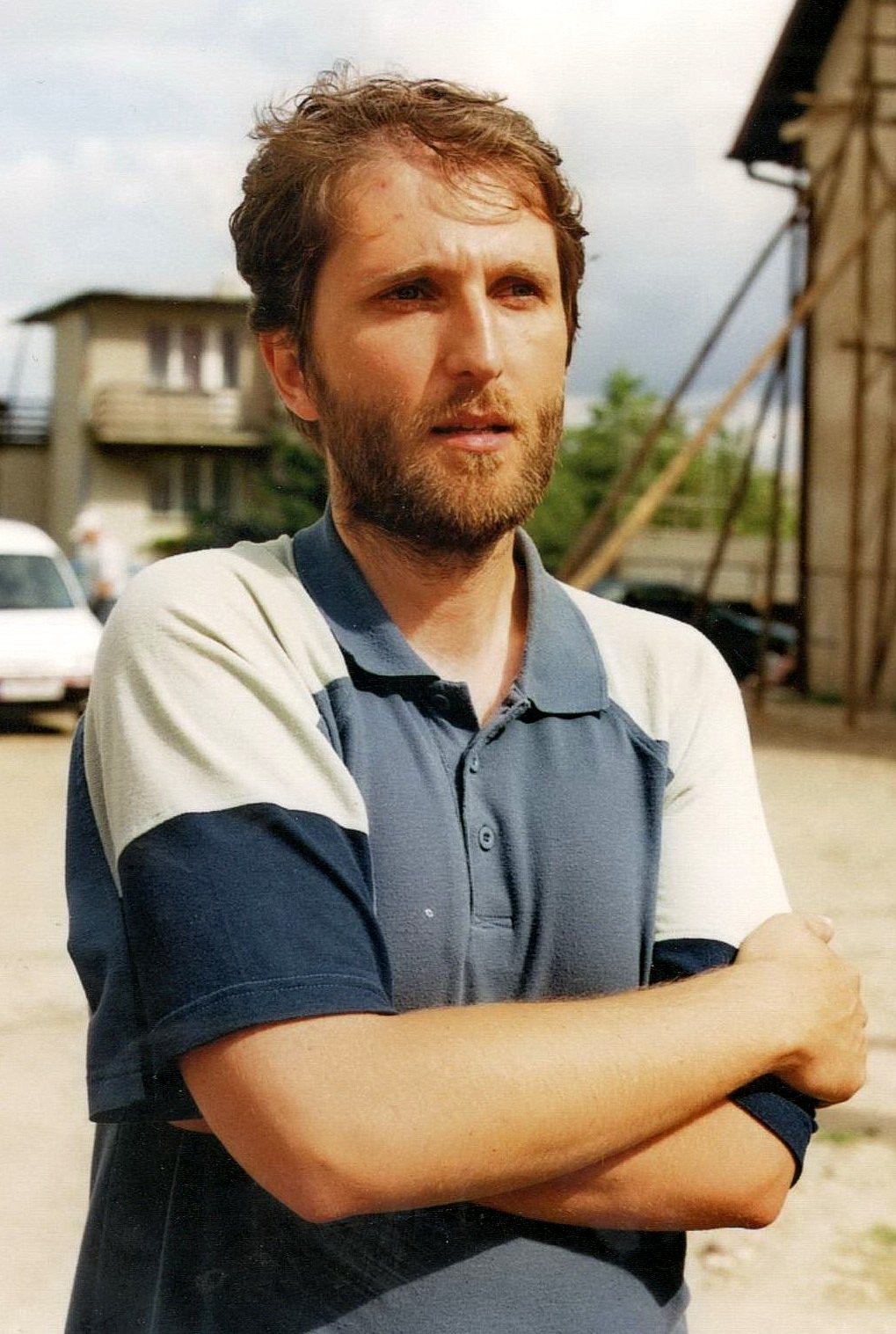 Robert Bernatowicz (2003) in Wylatowo